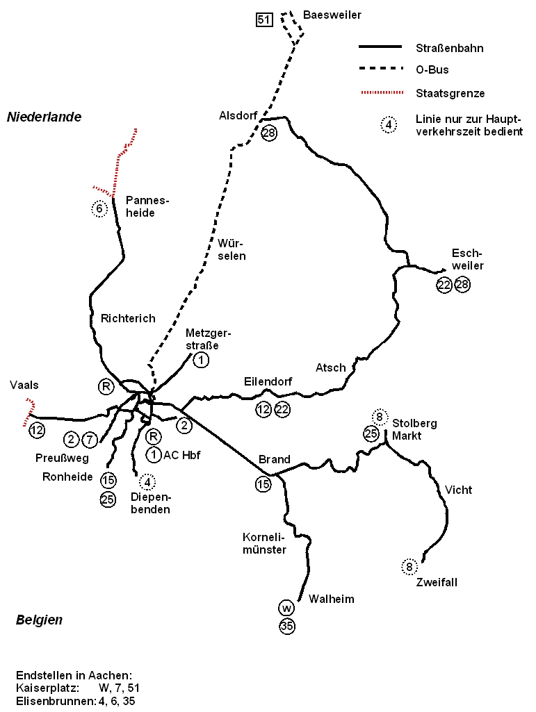 Tramway network Aachen (1960)